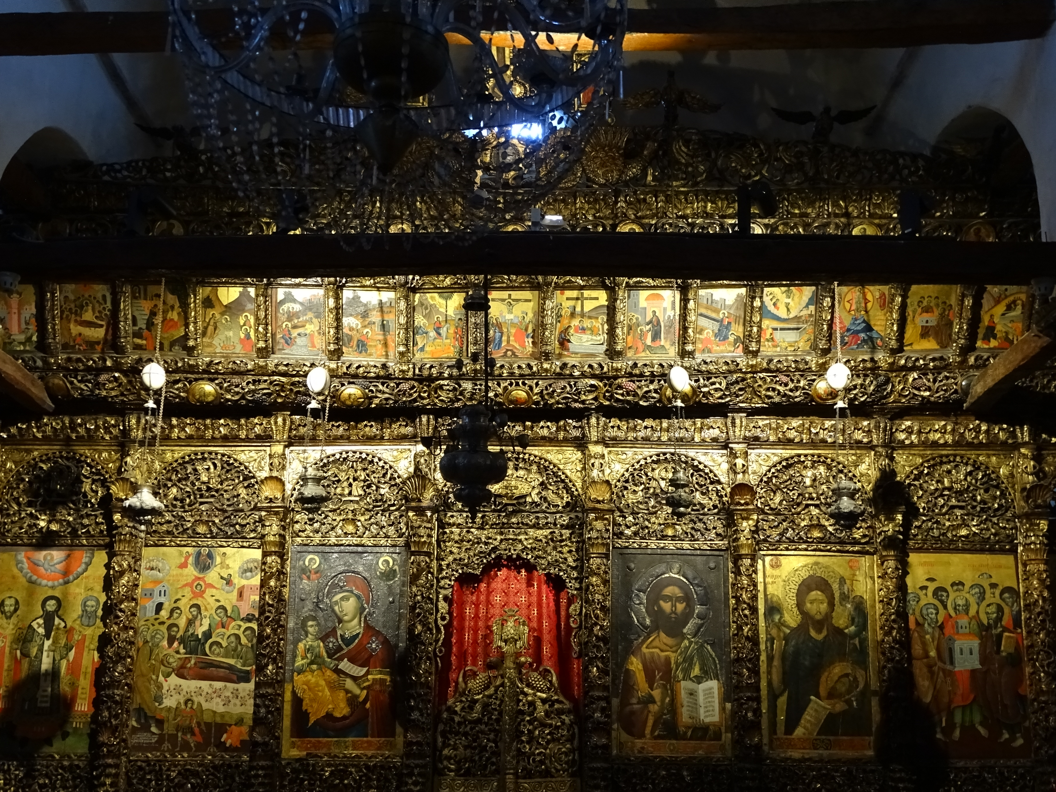 Photos by Adam Jones